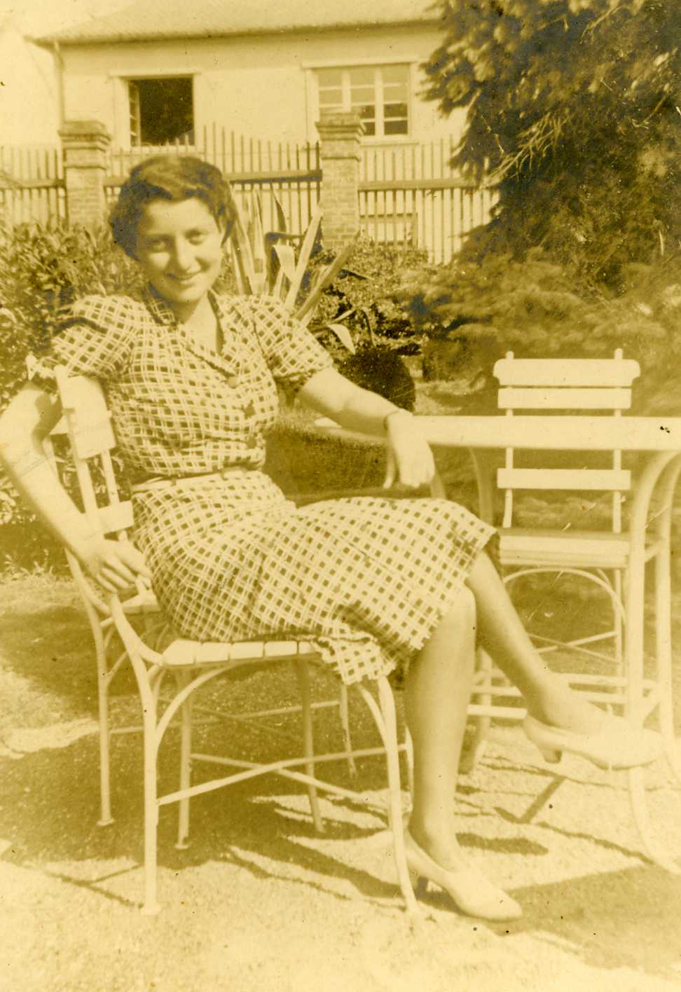 Hannah Senesh, People of Israel